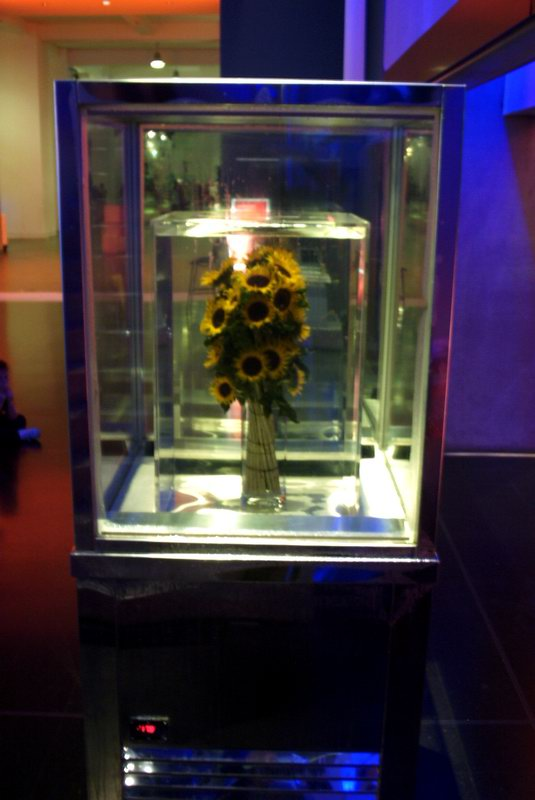 Eternal Spring: Sunflowers II. Installation by Marc Quinn. The sunflowers are immersed in liquid silicone oil which remains liquid down to -80 and then kept in subzero temperatures.